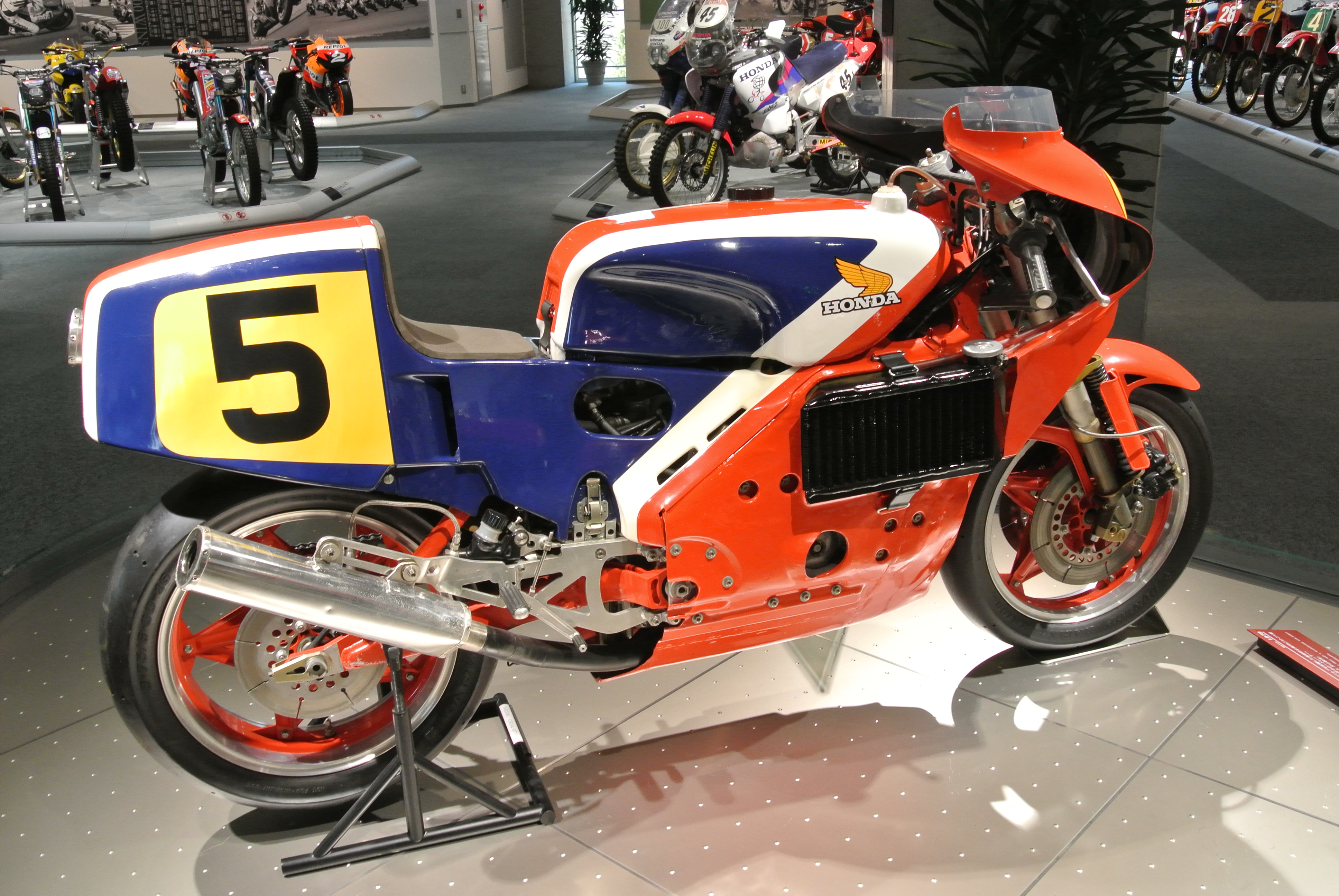 Honda's First Oval Piston Engine Racing Motorcycle NR500 in the honda motorcycle collection hall.